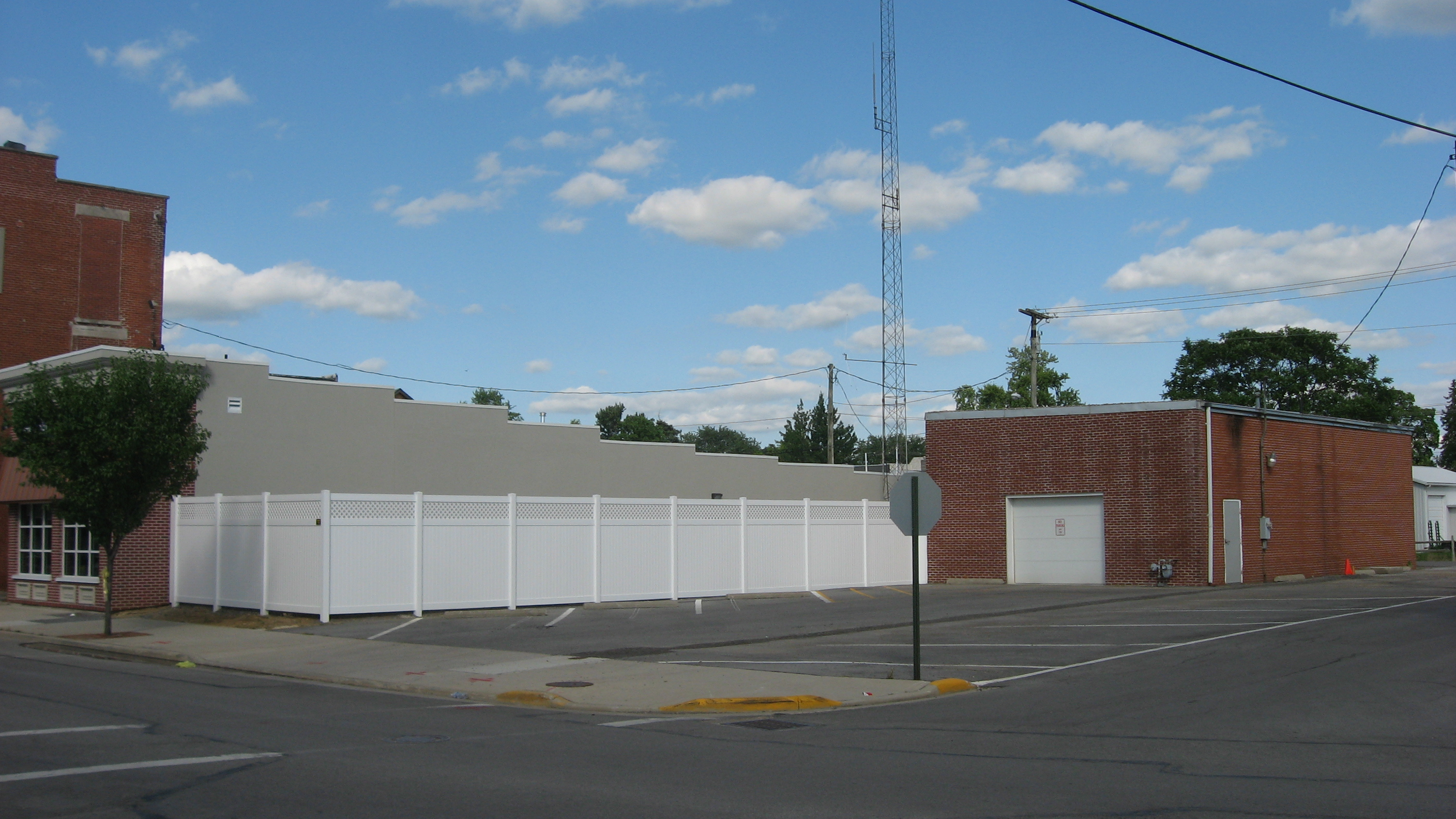 Site of the Leipsic City Hall, seen from the west. Located along Belmore Street (State Route 65) at its intersection with Cherry Street in Leipsic, Ohio, United States, the municipal building was built in 1904 and is listed on the National Register of Historic Places, despite having been destroyed.